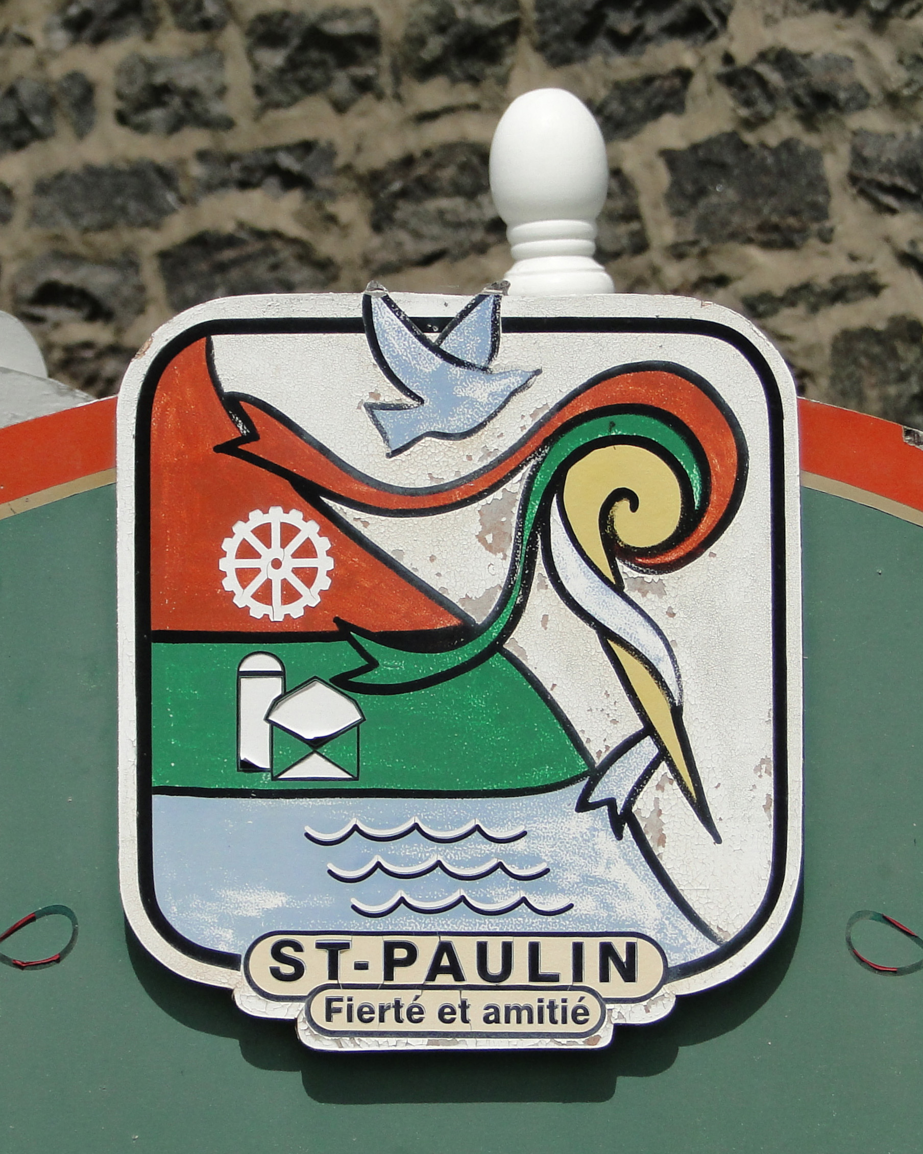 Emblem of Saint-Paulin, province of Quebec, Canada